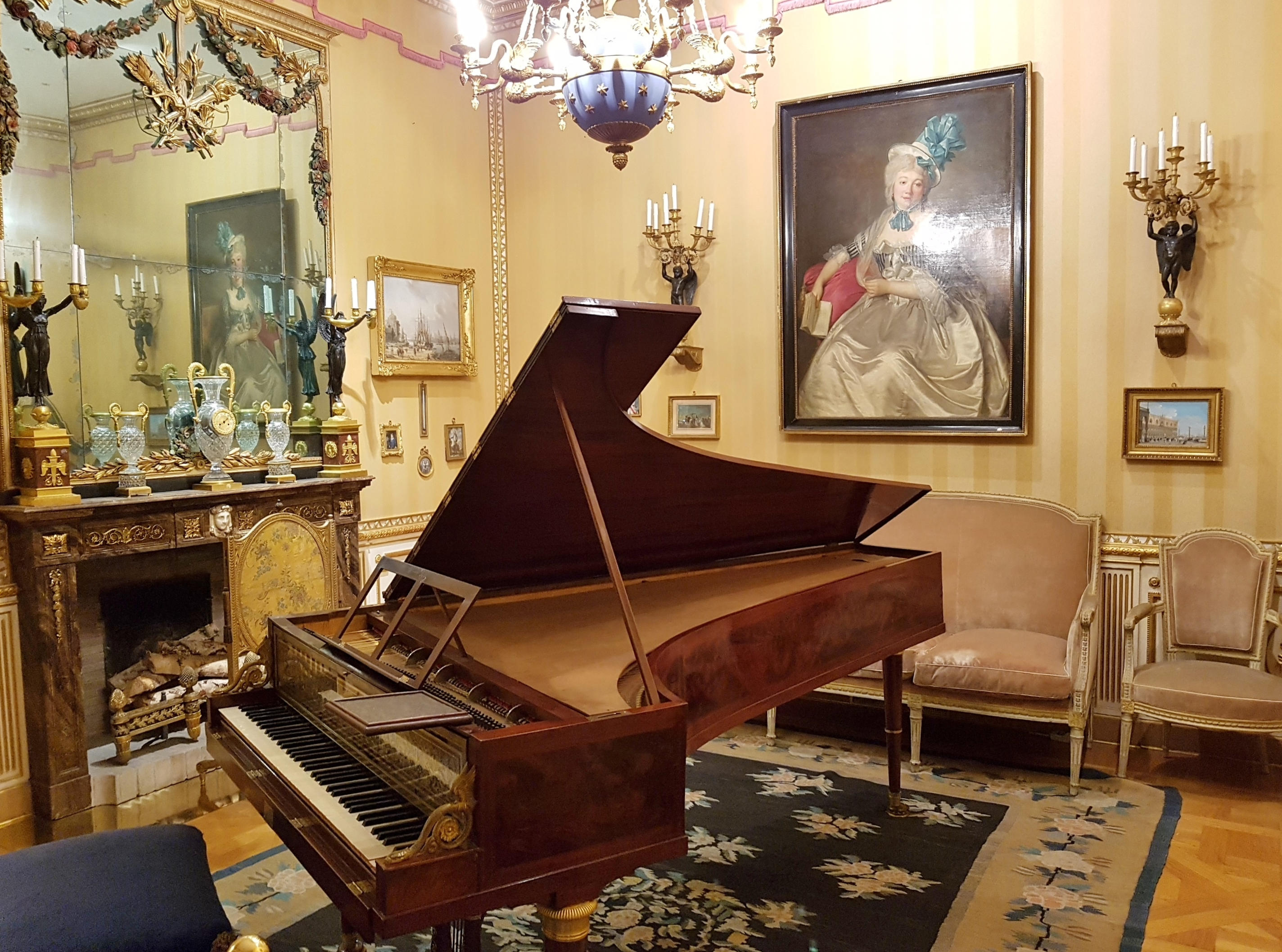 Salotto della musica, Museo di Arti Decorative Accorsi–Ometto, Torino